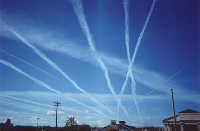 Multiple contrails in an area with high airline traffic.